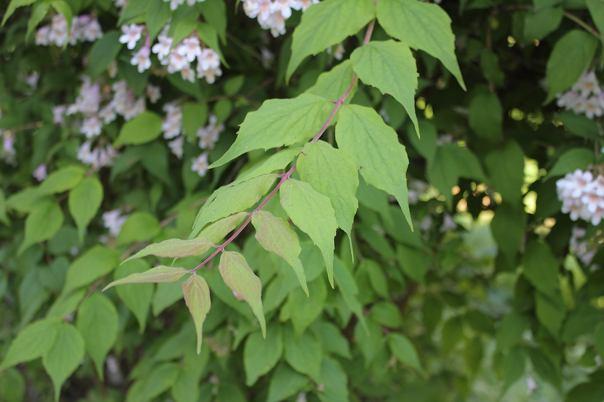 Leafs of Kolkwitzia amabilis